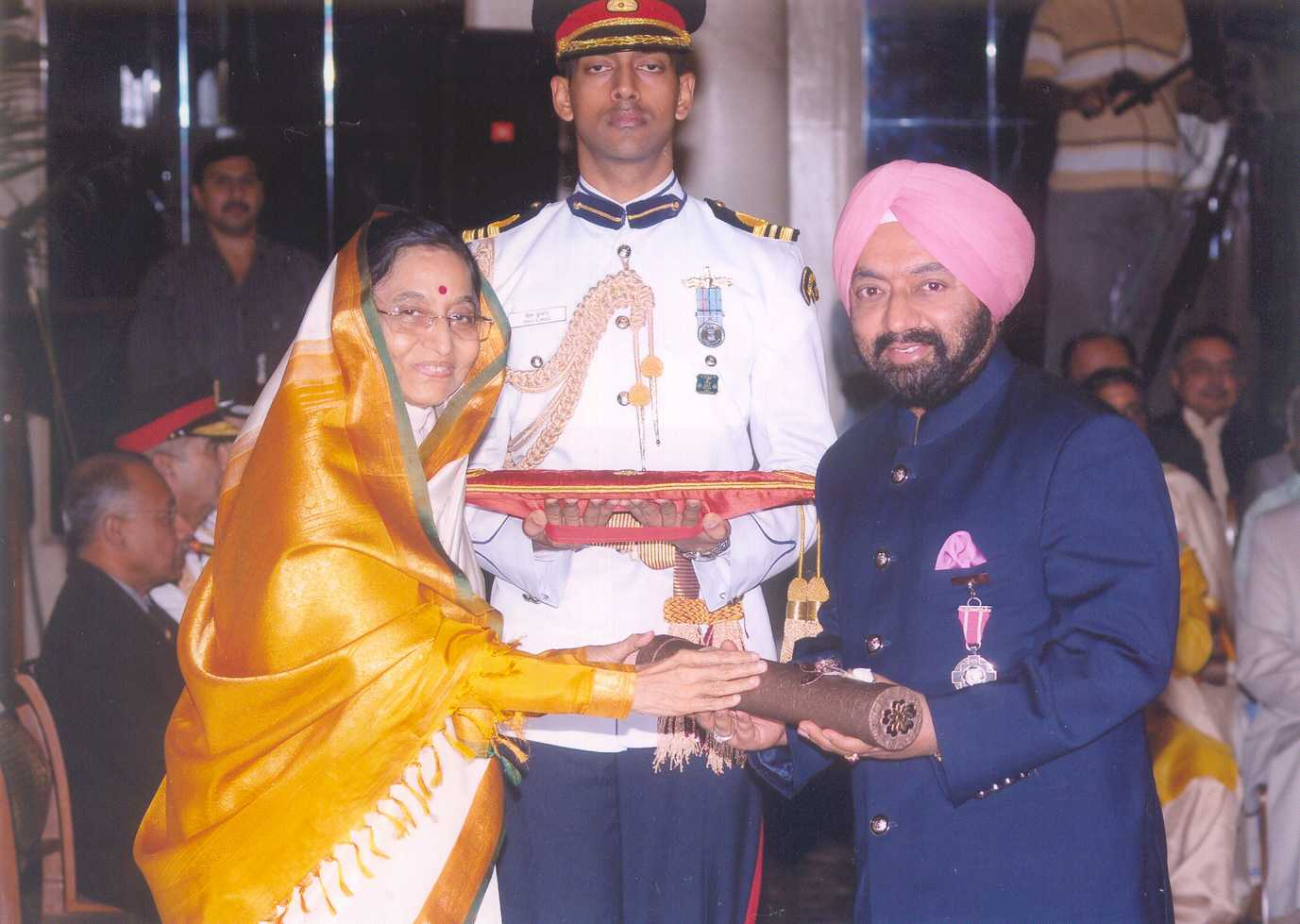 Shri Vikramjit Singh Sahney being honoured with Padma Shri Award for his invaluable contribution to the Society by Her Excellency Smt. Pratibha Devi Singh Patil, Hon'ble President of India.